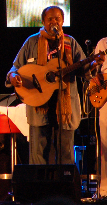 Terry Callier in Flow Festival in Helsinki, Finland